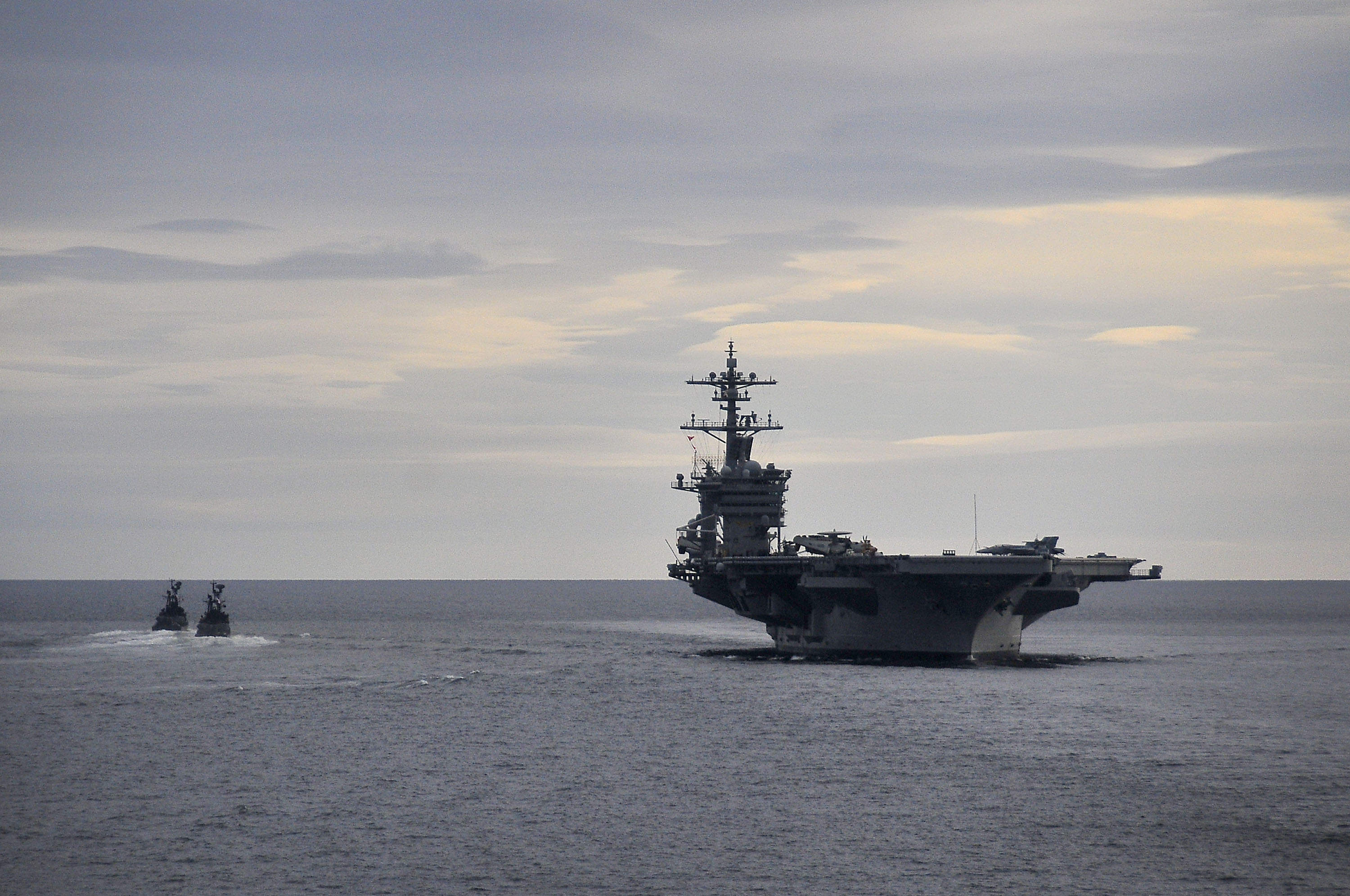 STRAIT OF MAGELLAN (March 15, 2010) The Chilean navy Sa'ar 4-class fast-attack craft Angamos and Casma perform tactical maneuvering exercises in the Strait Of Magellan. Carl Vinson is supporting Southern Seas 2010, a U.S. Southern Command-directed operation that provides U.S. and international forces the opportunity to operate in a multi-national environment. (U.S. Navy photo by Mass Communication Specialist 2nd Class Daniel Barker/Released)